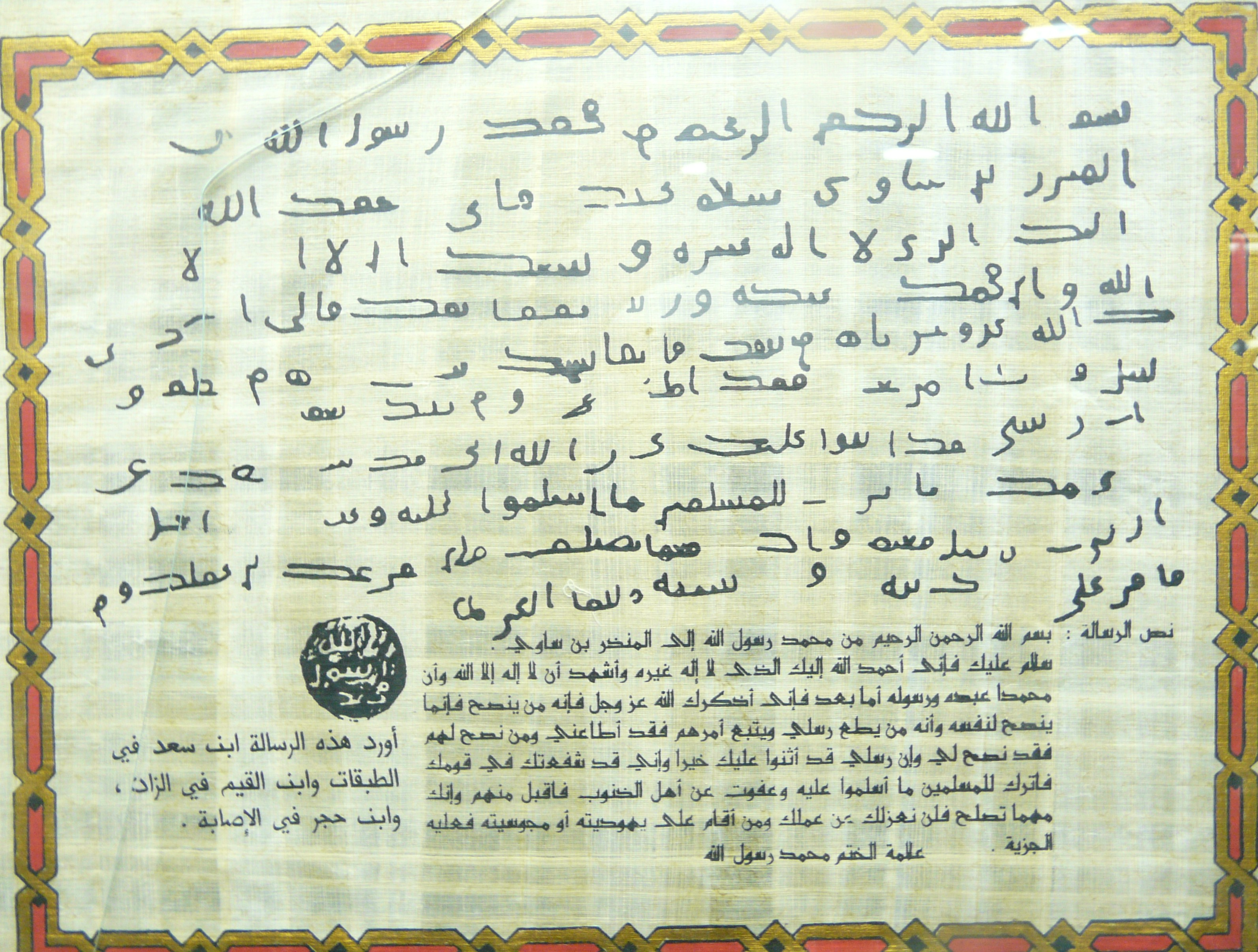 A facsimile of a letter of the prophet Muhammed to Munzir ibn Sawa Al Tamimi. Below the facsimile reproduction is a modern transcription.